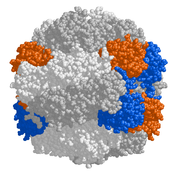 Spacefilling structure of RuBisCO created using Rasmol and the 8RUC file from the Protein Data Bank.